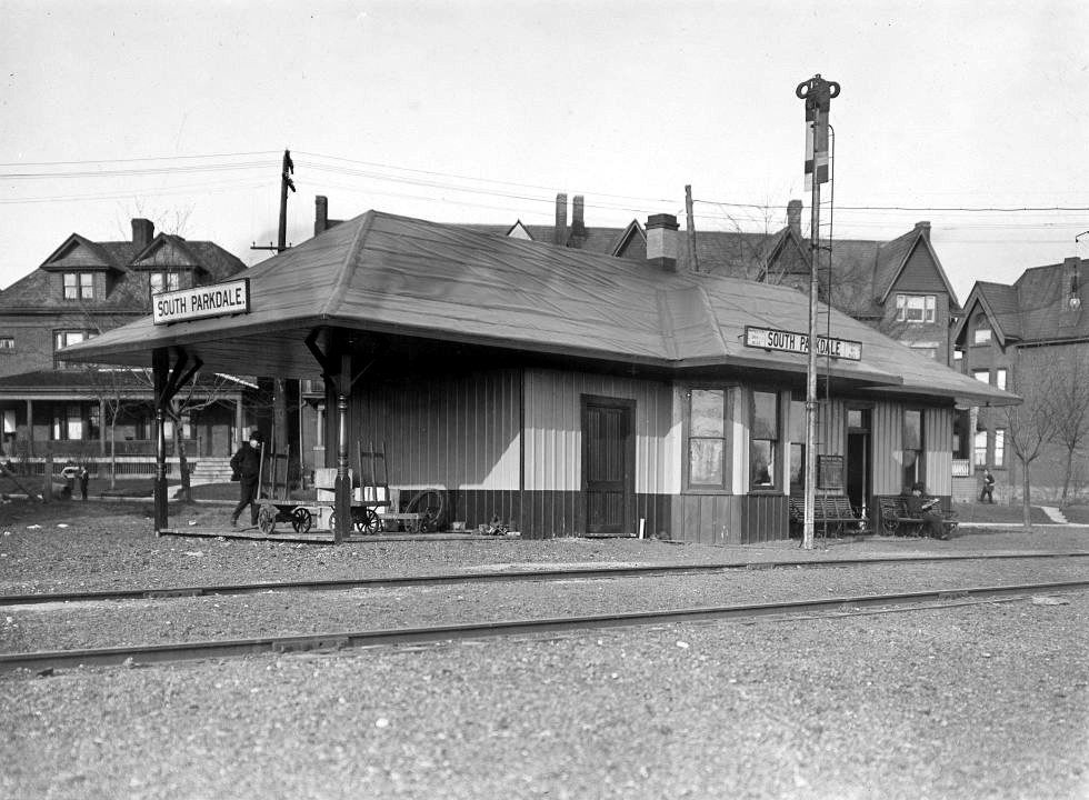 View of G.T.R. South Parkdale Station.